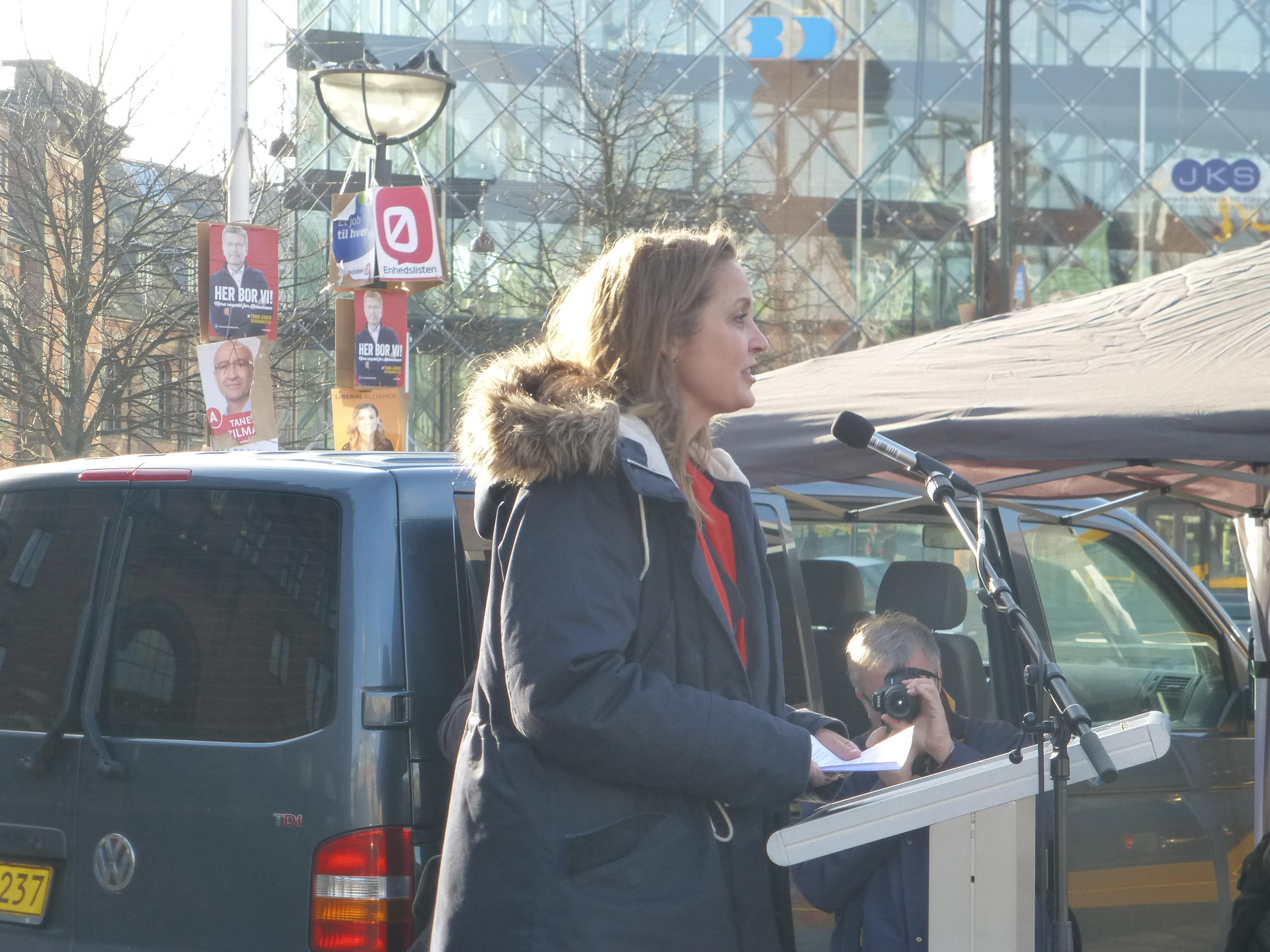 Danish minister of transport Pia Olsen Dyhr speaking on Rådhuspladsen in Copenhagen at the presentation of tests with electric buses in Copenhagen.